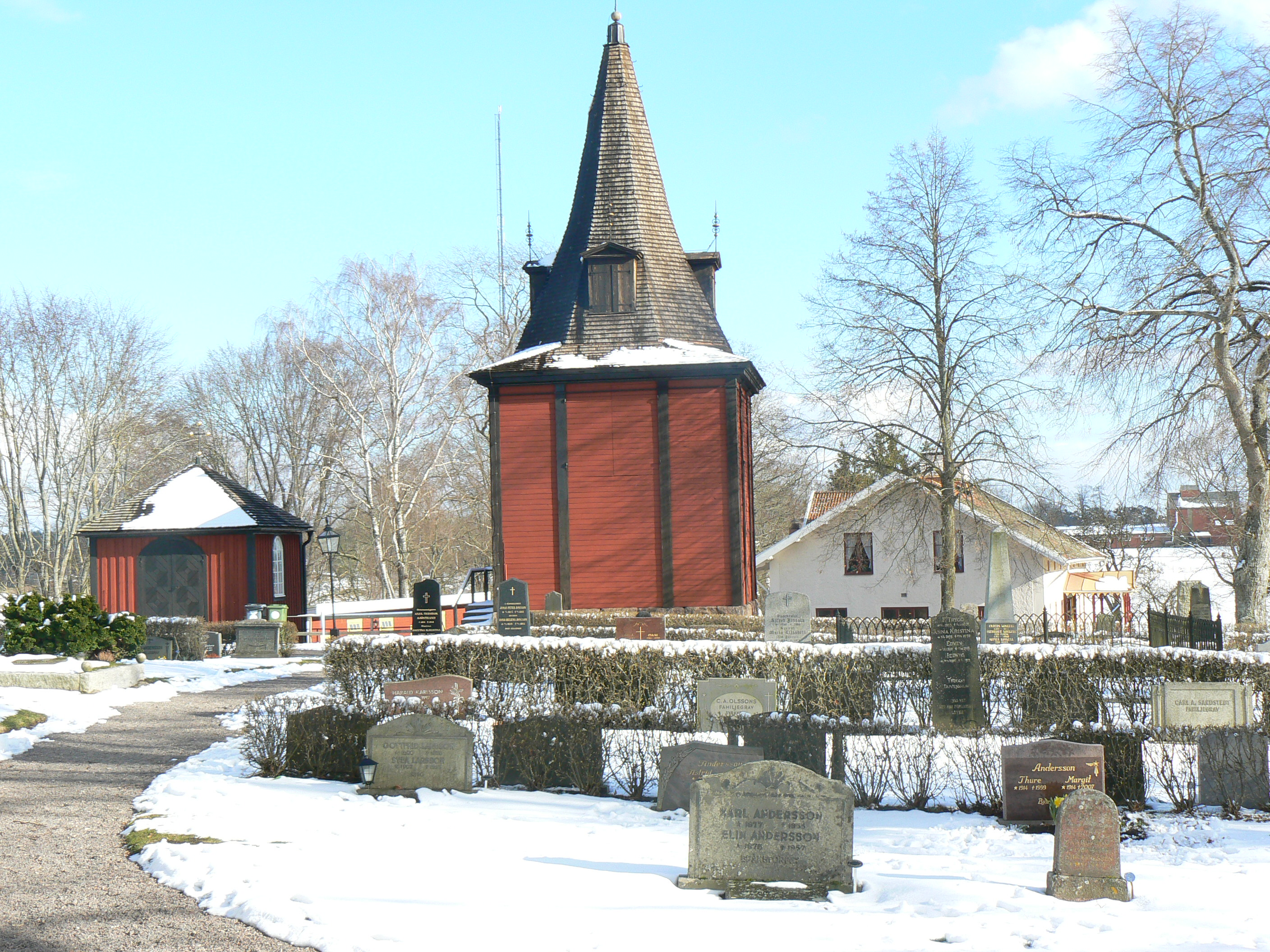 The bell tower outside Örtomta church, Östergötland, Sweden.